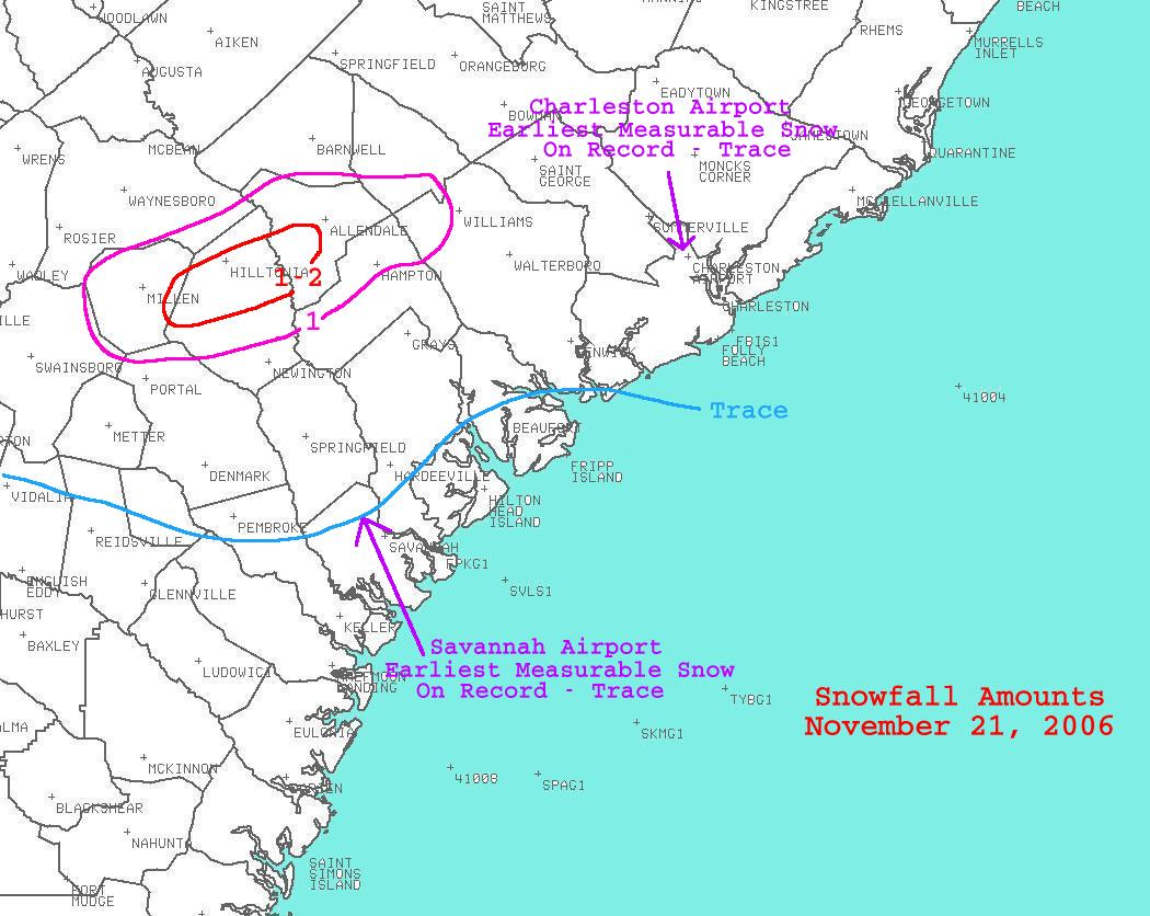 National Weather Service Office, Charleston, SC